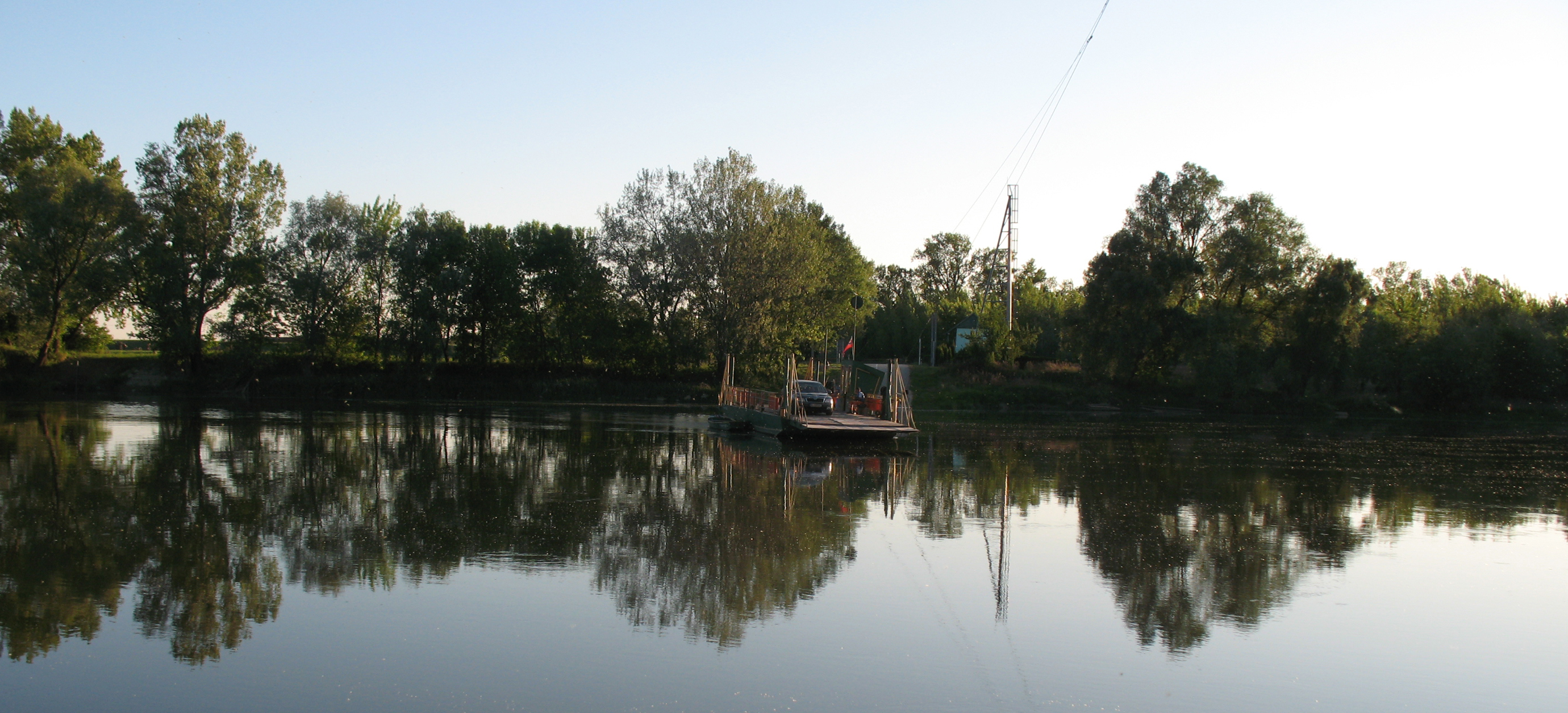 Vľčany